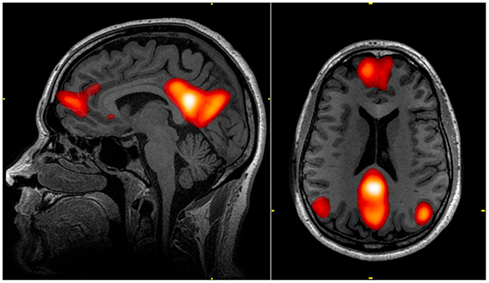 Magnetic resonance imaging of areas of the brain in the default mode network.